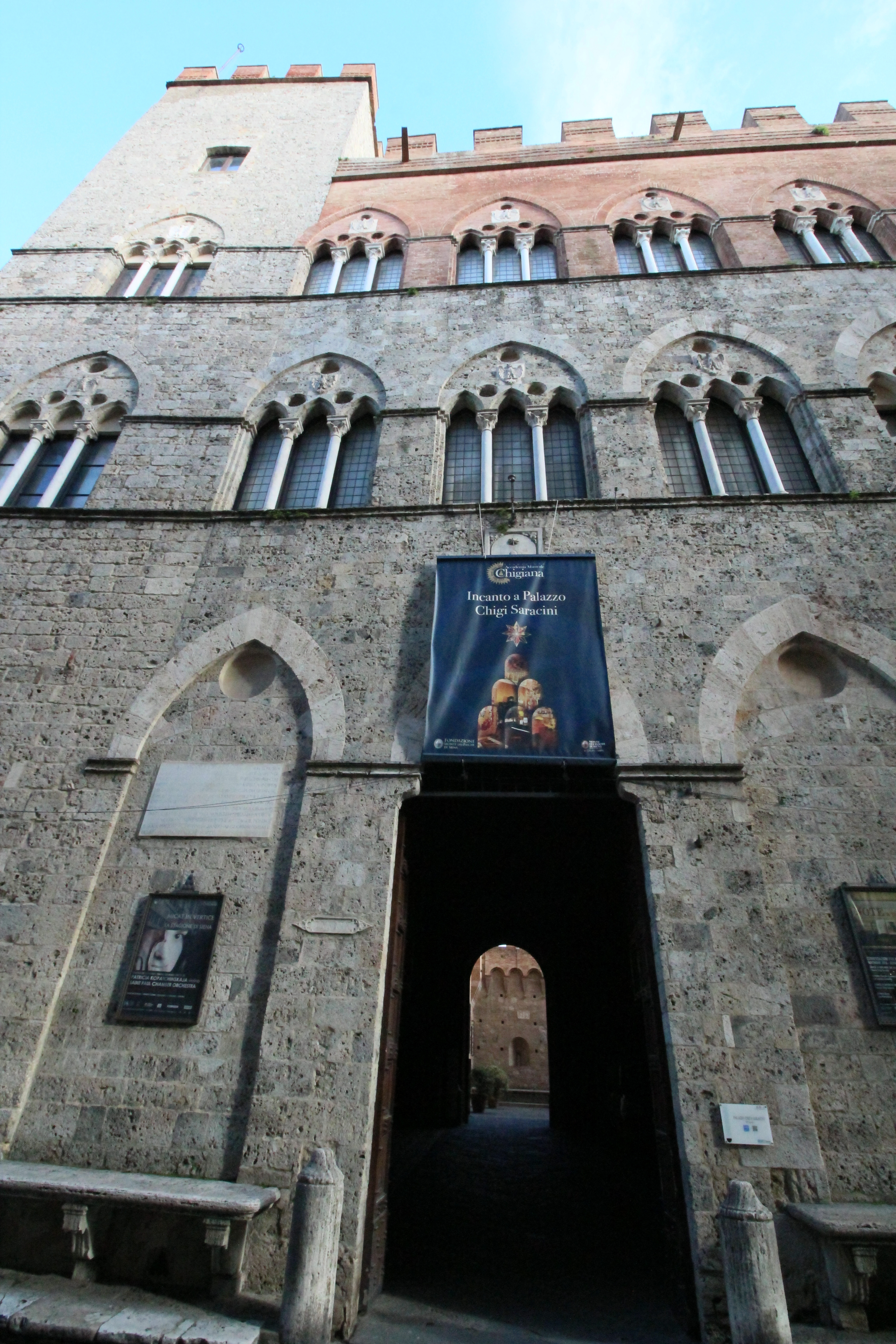 Palace Palazzo Chigi-Saracini, Via di Citta, Siena, Tuscany, Italy